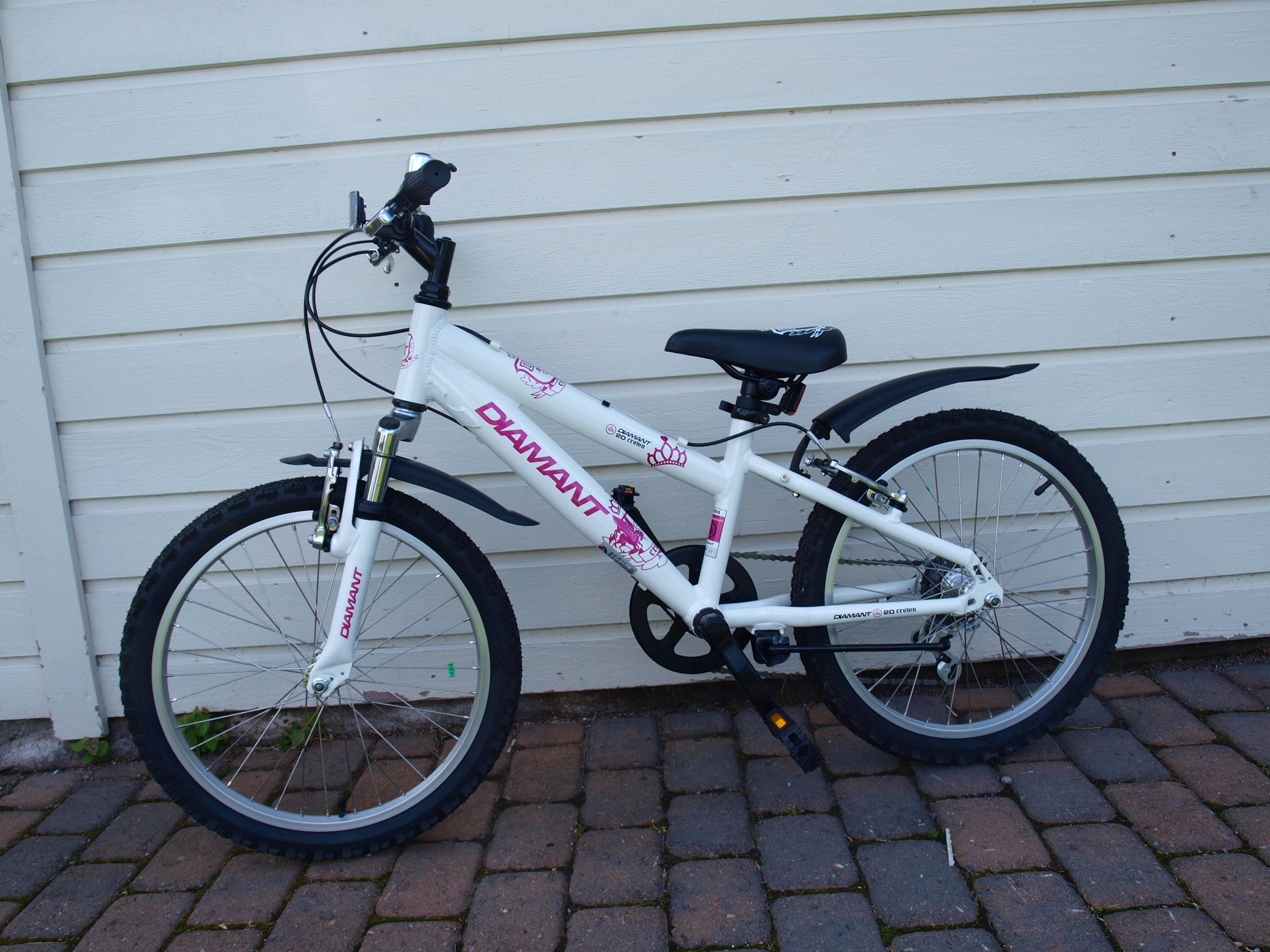 Norwegian bicycle Diamant Crown 20 (2010 model).